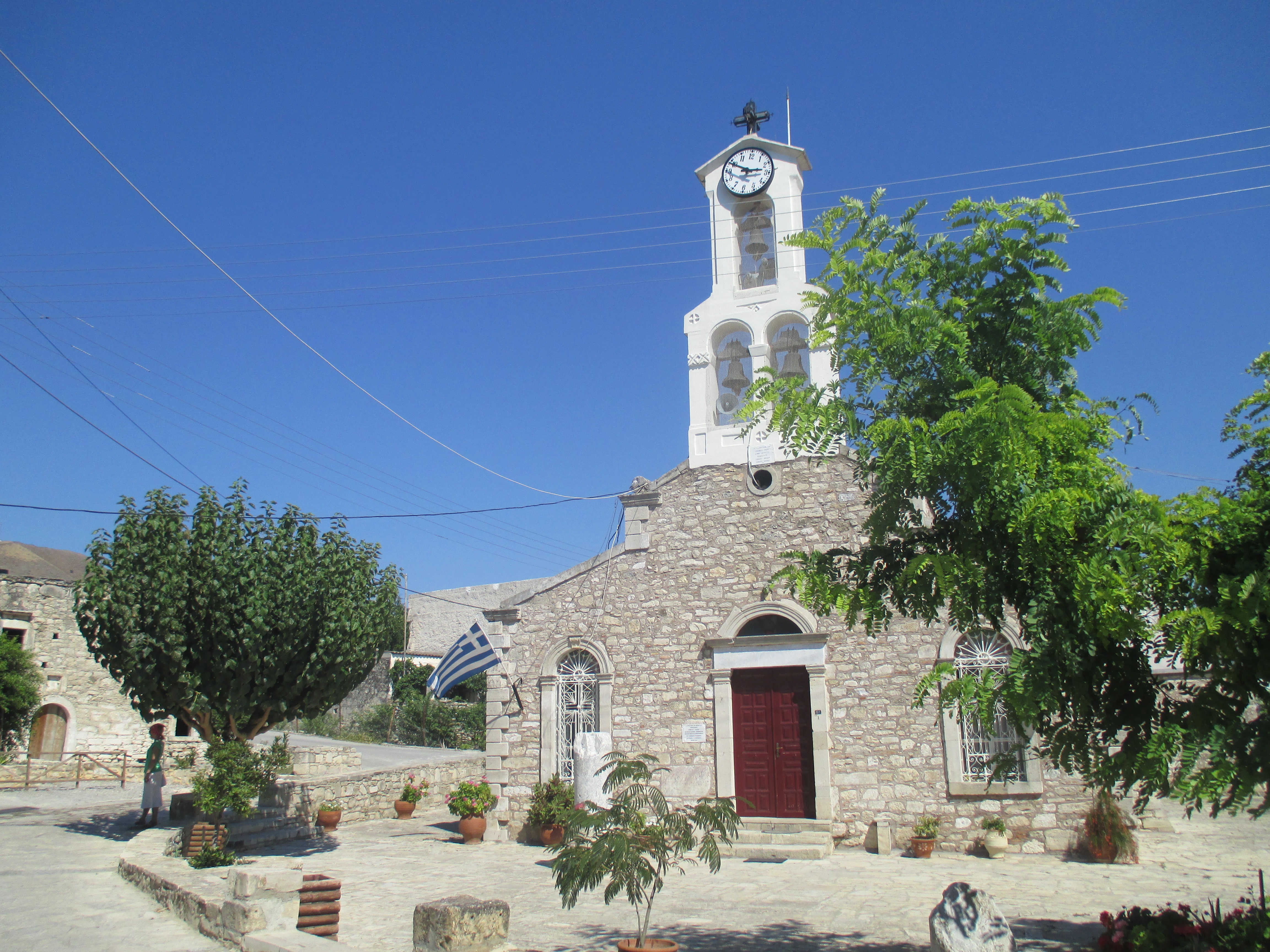 Agioi Deka, Crete.